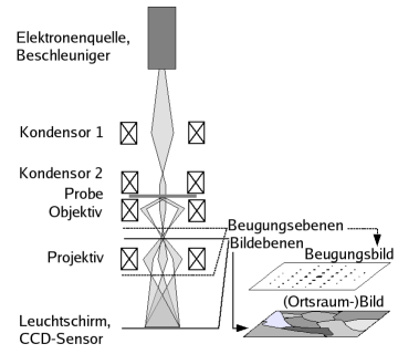 Basic TEM ray diagram (German annotations) Generated July 12th 2006 using OO/The Gimp. Author : Uwe Falke